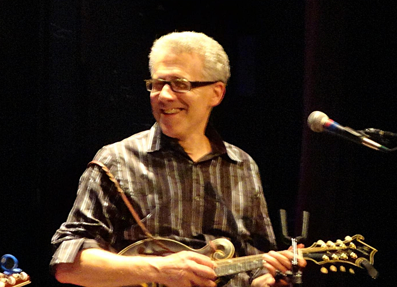 Barry Mitterhoff-- Hot Tuna now includes Barry Mitterhoff playing mandolin. They performed at The Somerville Theater near Boston, Mass. on June 18, 2013.